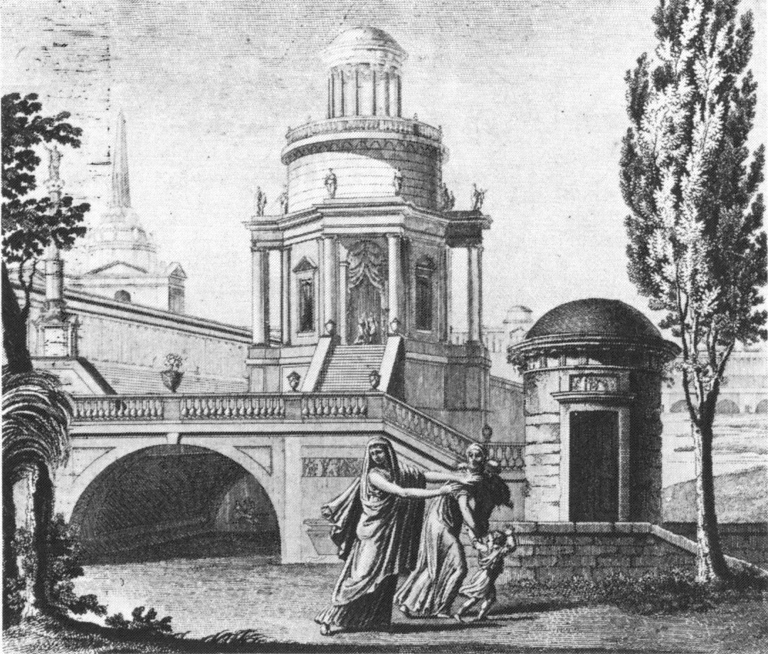 Luigi Cherubini - Médée - act 3 - Ignace Eugène Marie Degotti - Paris 1797